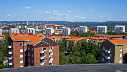 View of Guldheden in Göteborg from the water tower